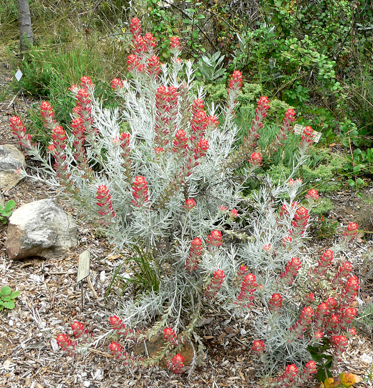 Photo of Castilleja lanata ssp. hololeuca at the University of California Botanical Garden